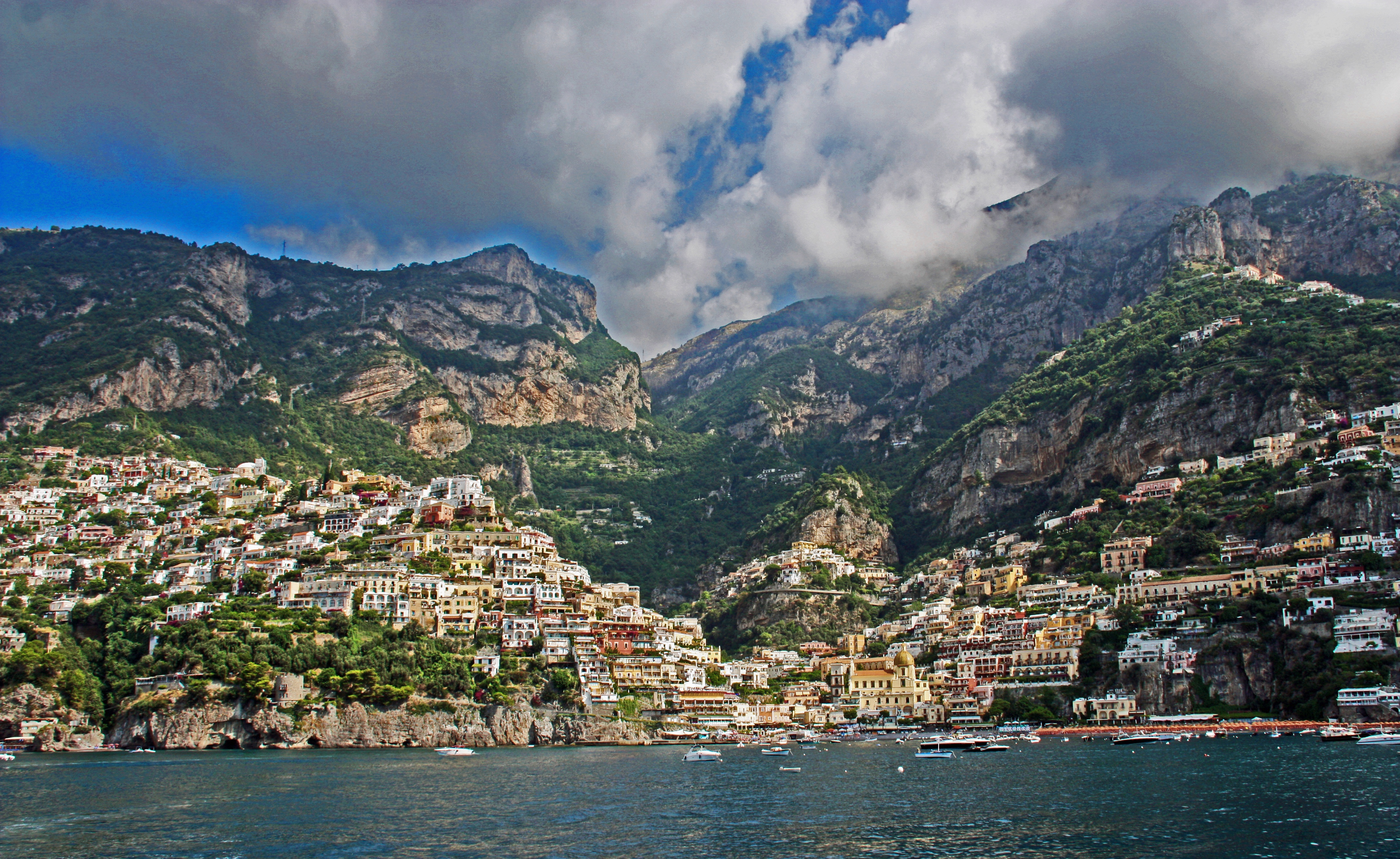 Positano from the sea